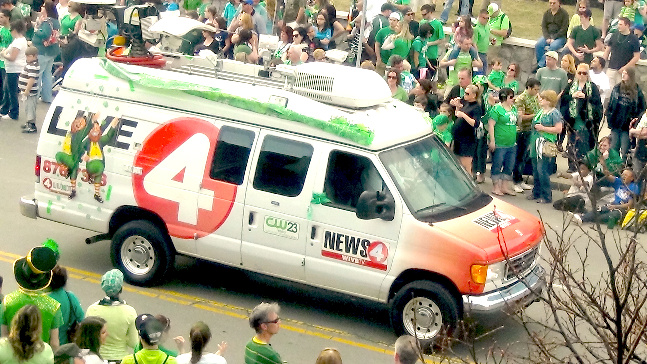 The WIVB-TV news truck driving through the Saint Patrick's Day parade held in Buffalo, New York.